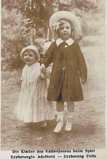 Erzherzogin Adelheid von Habsburg-Lothringen (1914-1971), rechts